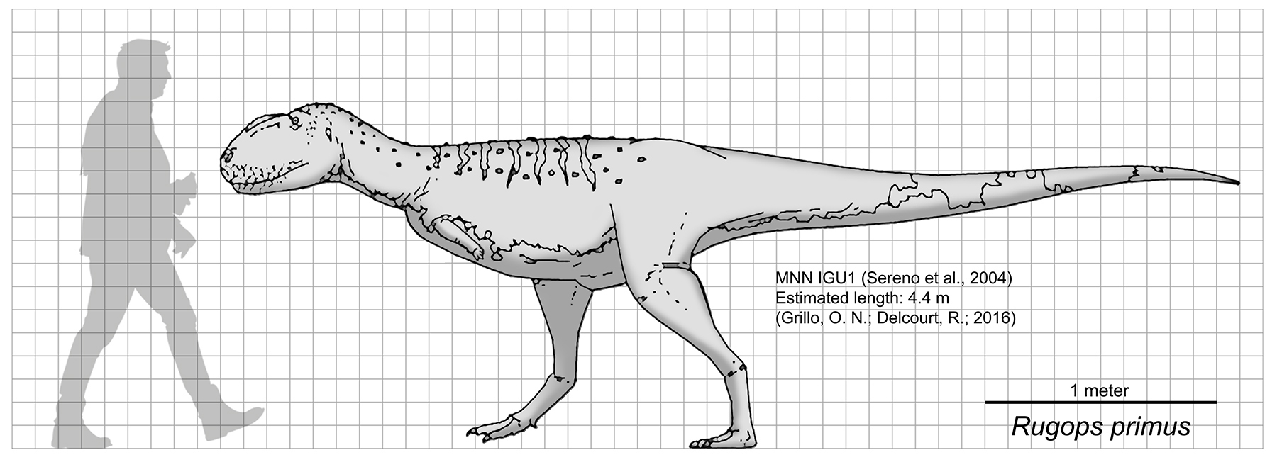 Scale diagram of Rugops primus.